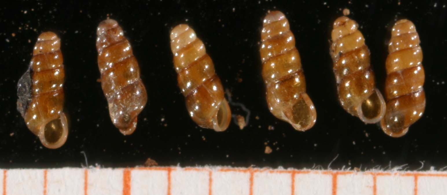 Photo of Platyla polita. Scale in mm. Locality: Germany: Altenhof near Eckernförde. Date: 08-1951.